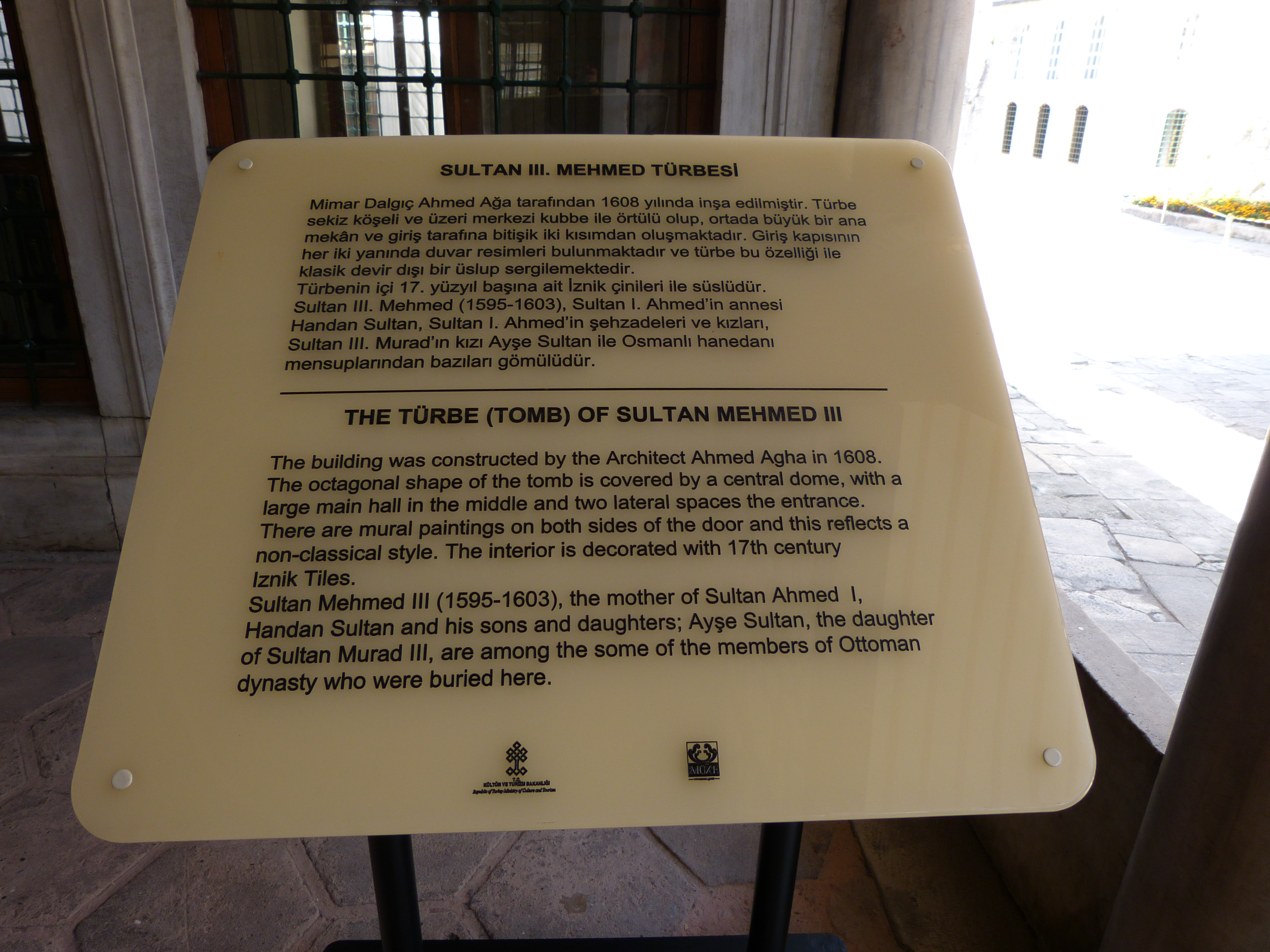 Türbe (Tomb) of Sultan Mehmed III. (1566–1603)